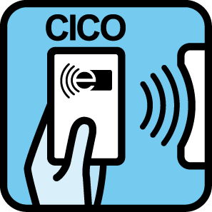 pictogram CICO